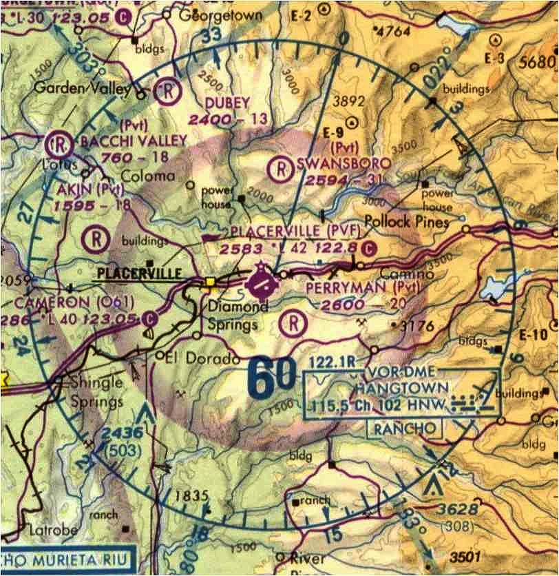 US-Airway Chart (Sectional Chart) - California